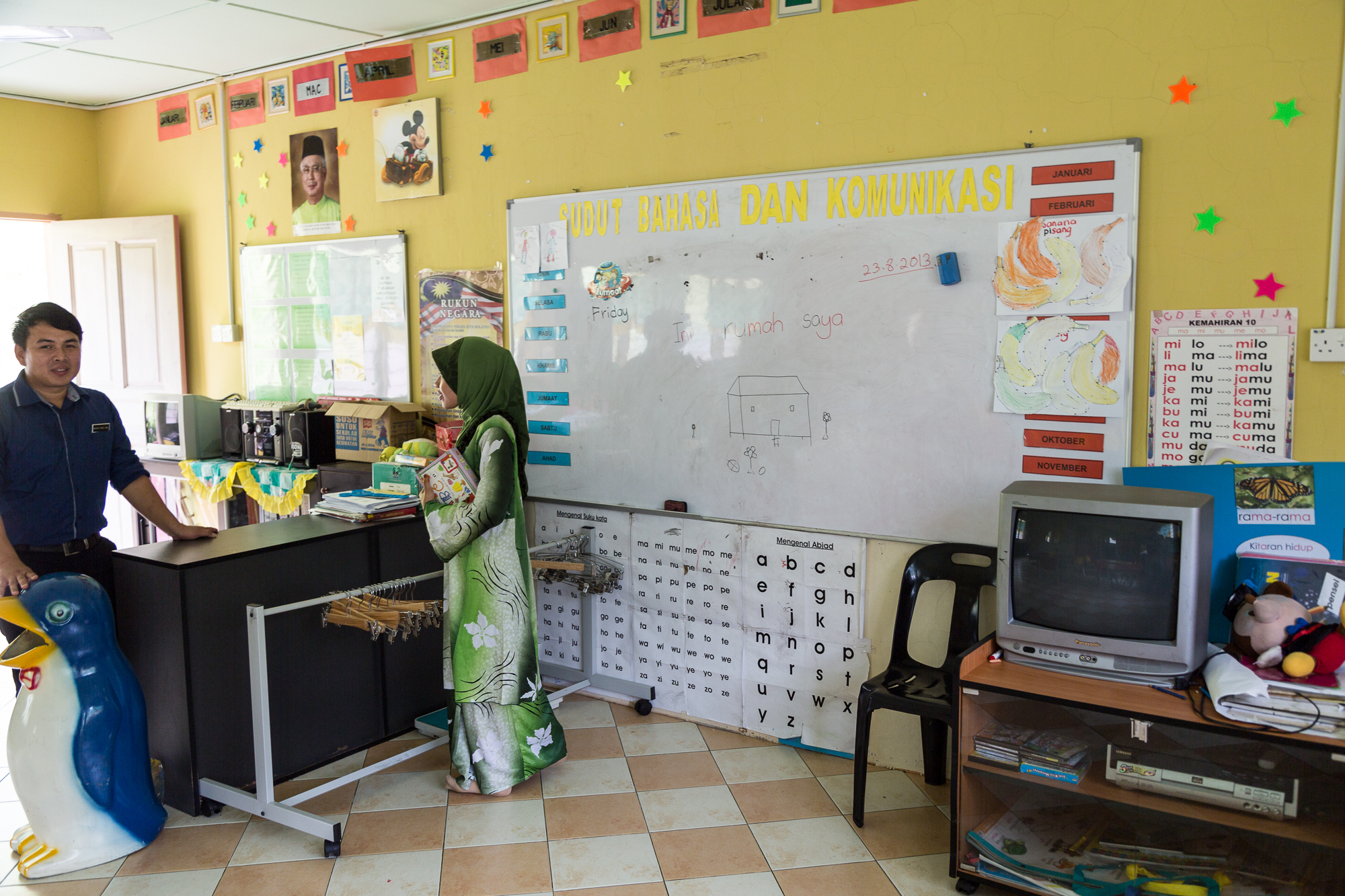 Pensiangan, Sabah, Malaysia: Kindergarten and Pre-School